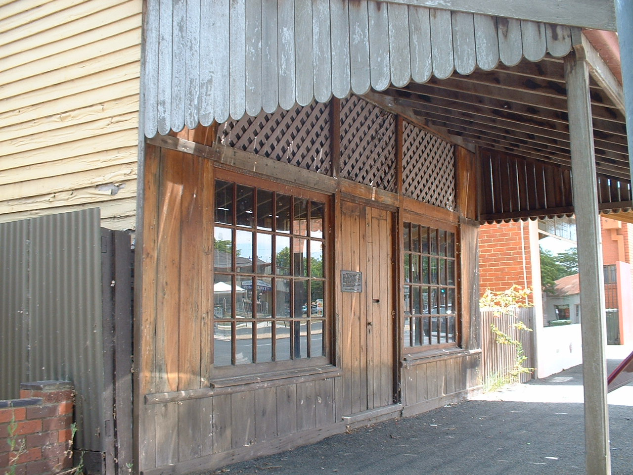 The old bootshop in Benalla, Victoria, Australia, where Ned Kelly fought with the police while being taken to the courthouse in September, 1877.